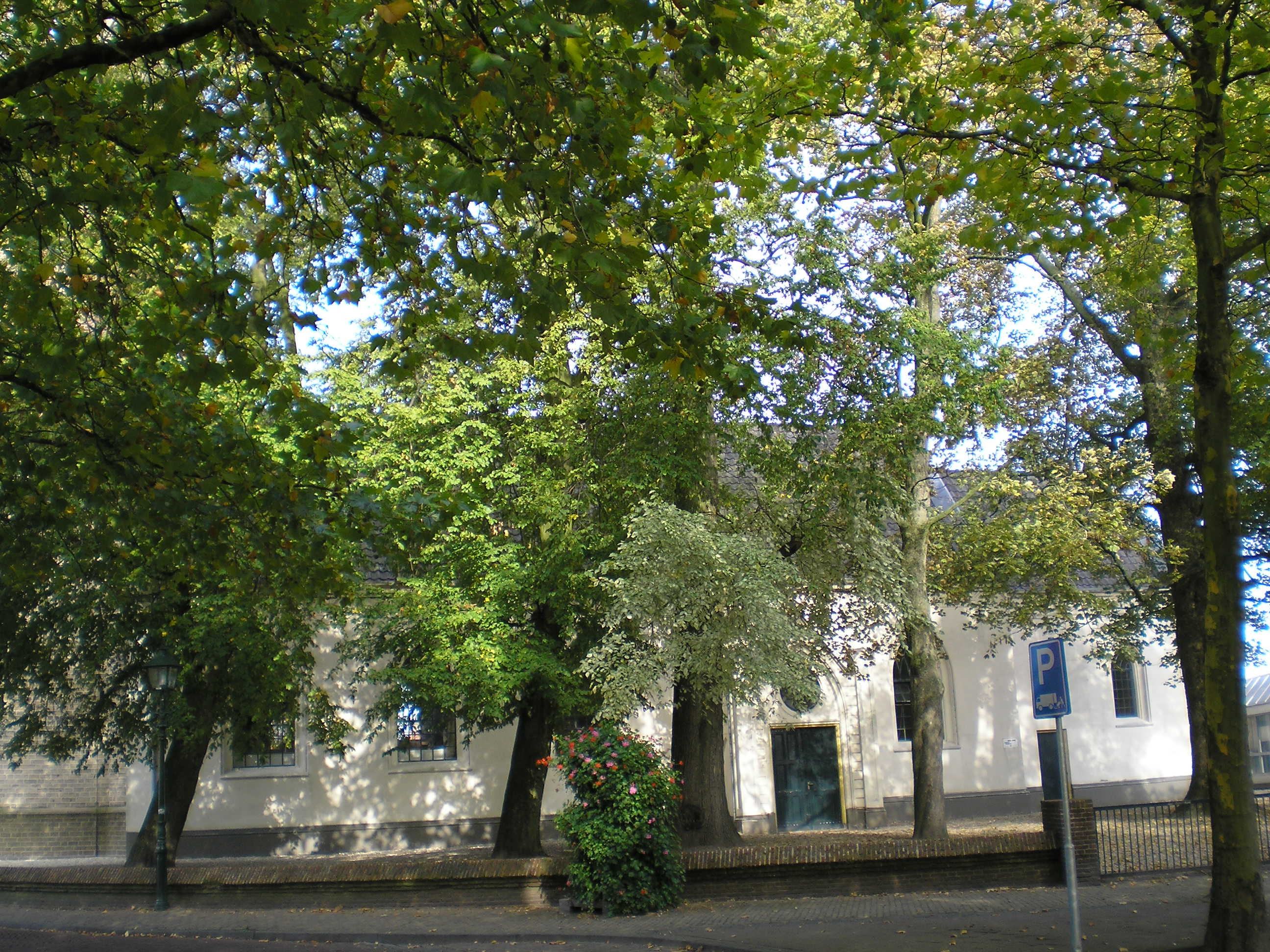 Restored Reformed Church in Houten, the Netherlands